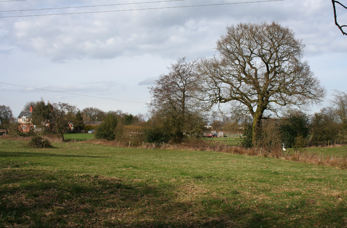 Pasture fields, Sound, Cheshire